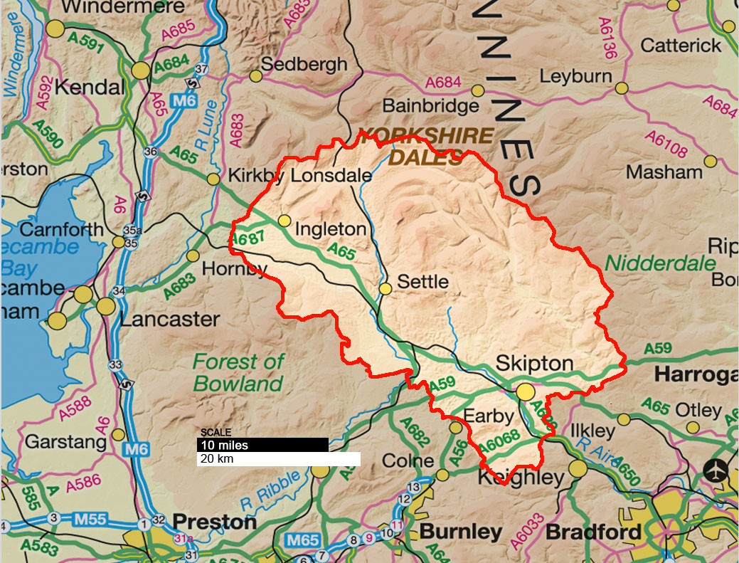 The Craven local government district in North Yorkshire, England, was redefined in 1974.